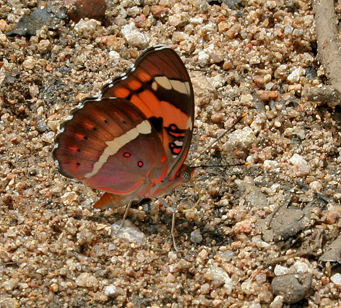 Baronet Euthalia nais in Narsapur, Andhra Pradesh, India.